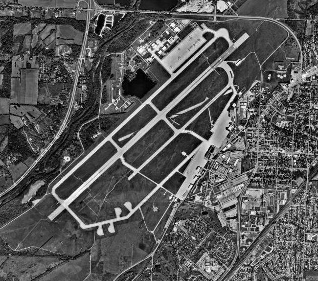 USGS digital orthophoto of Wright-Patterson Air Force Base in Ohio